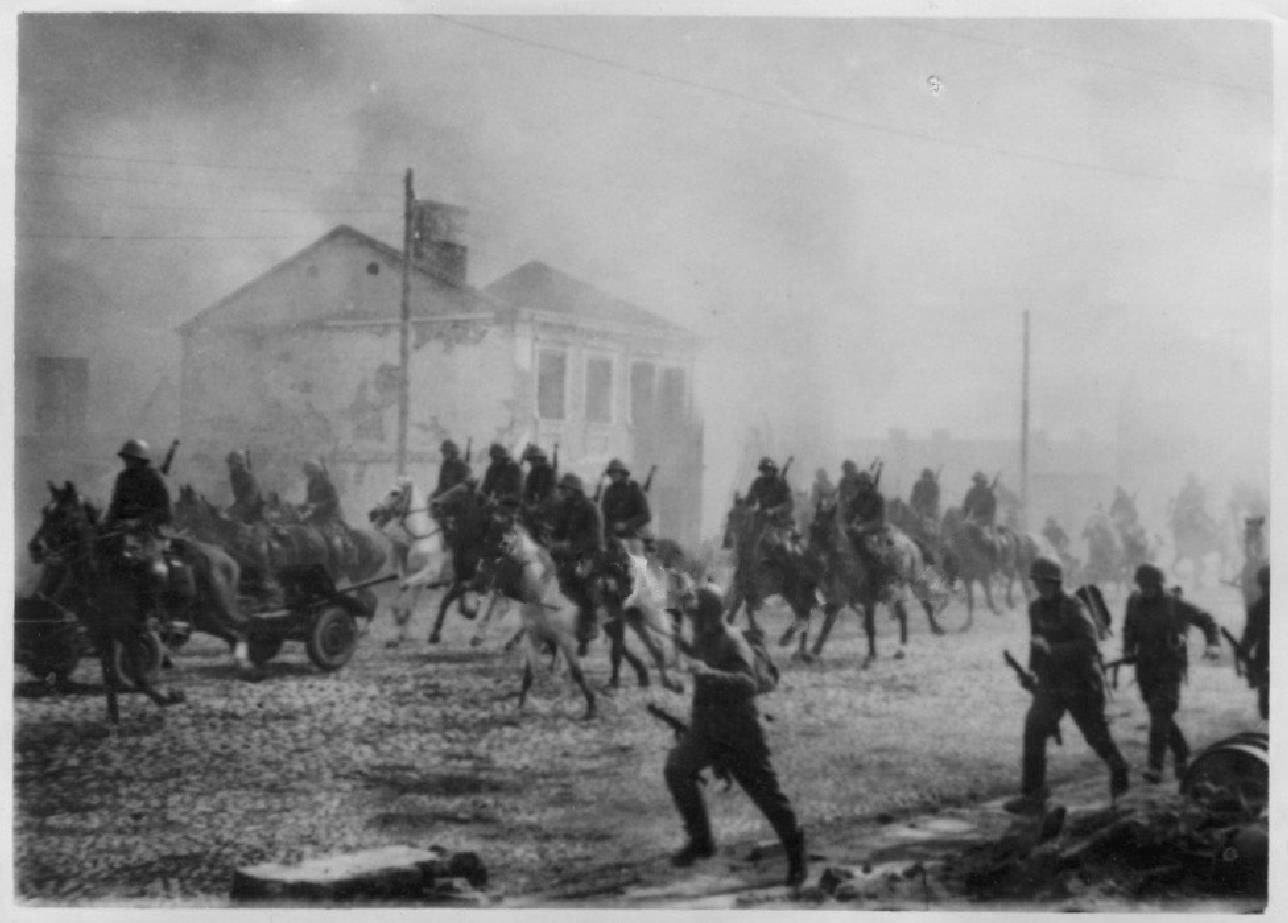 Cavalry dressed in irregular uniforms reminiscent to uniforms used by Slovak soldiers playing Polish army in Kampfgeschwader Lützow